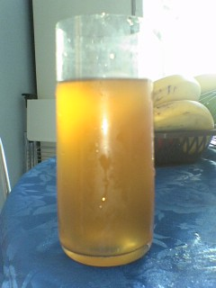 A glass of kvass